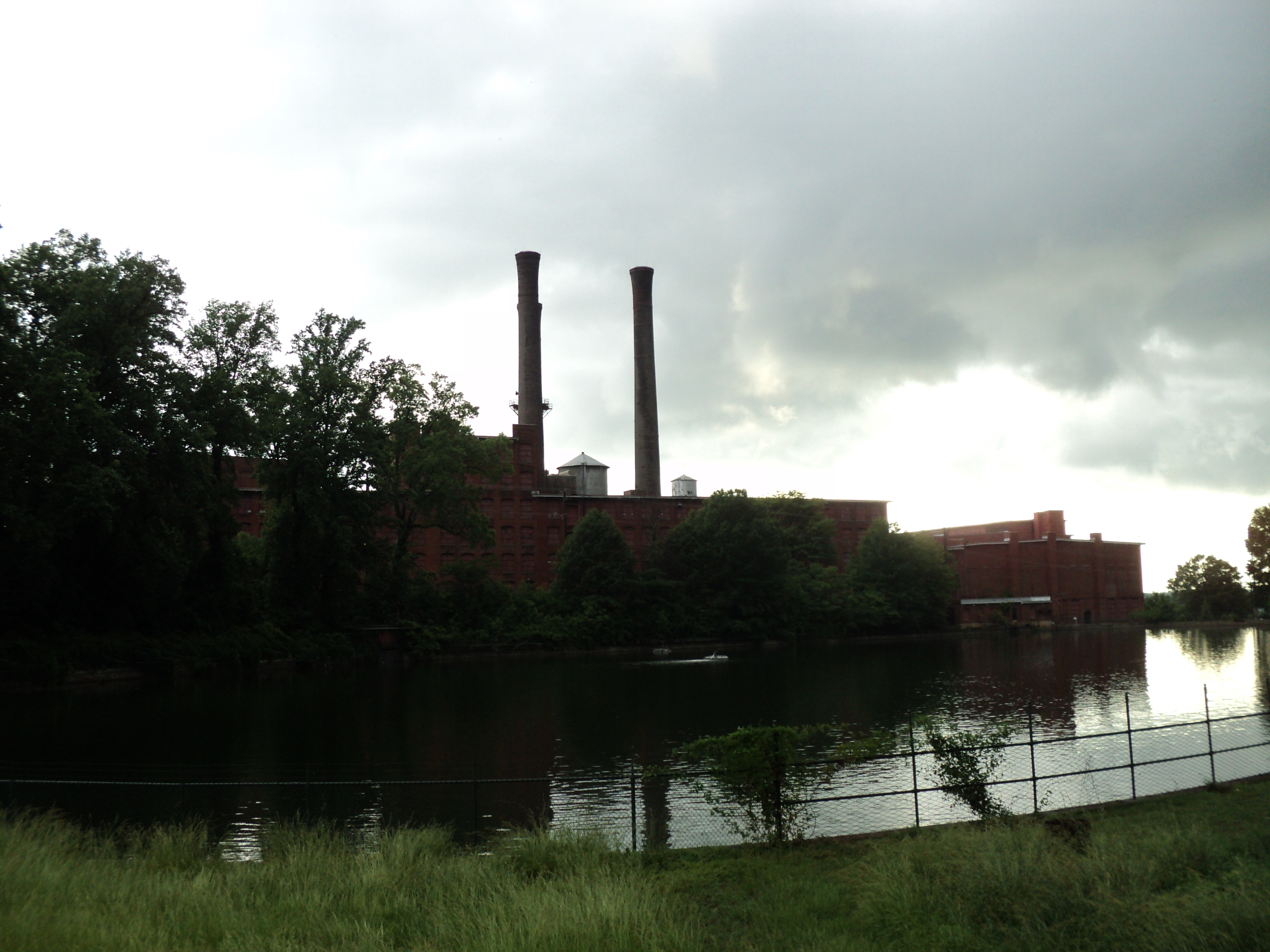 View of shuttered plant of Dan River Mills on the Dan River, Danville, Virginia.